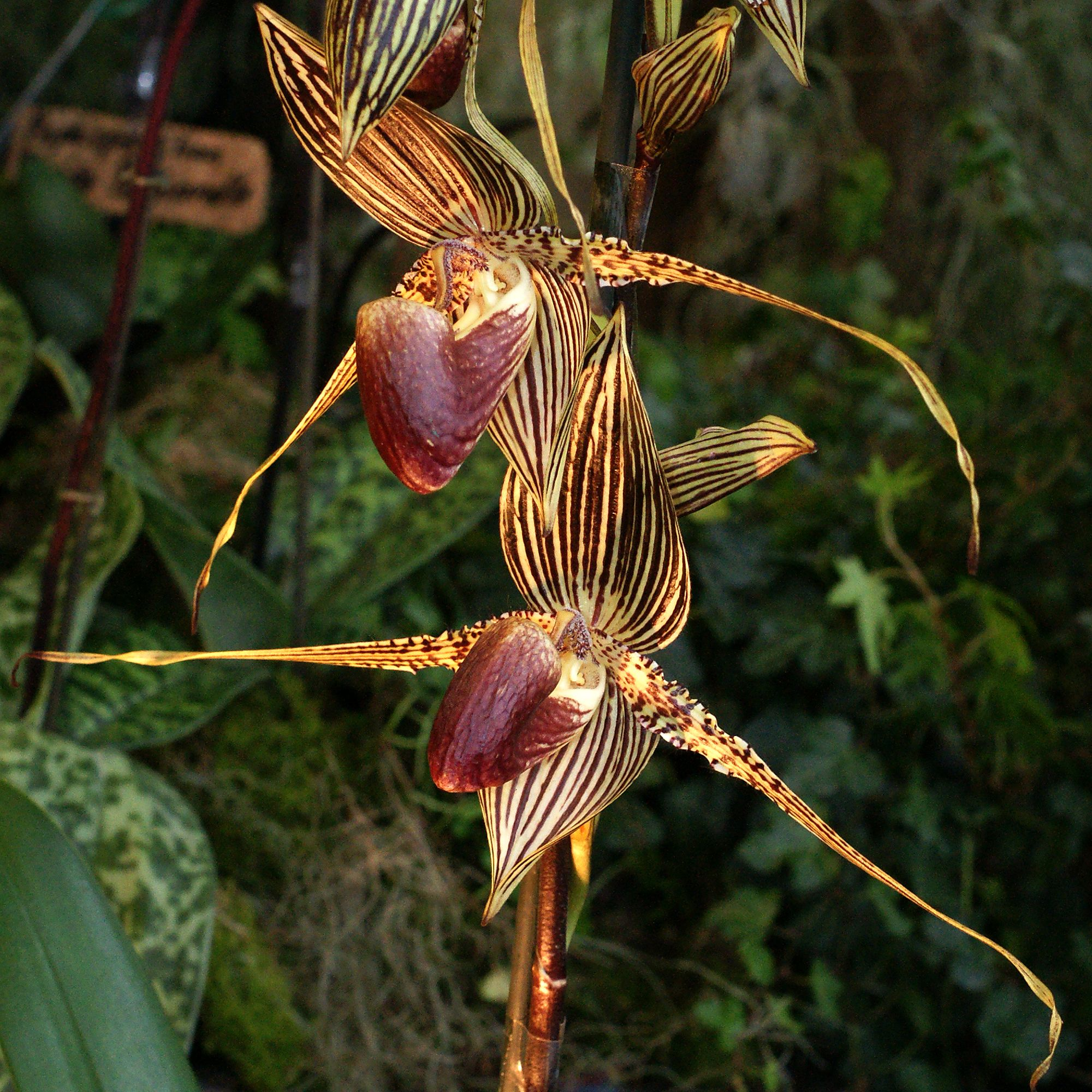 Paphiopedilum rothschildianum